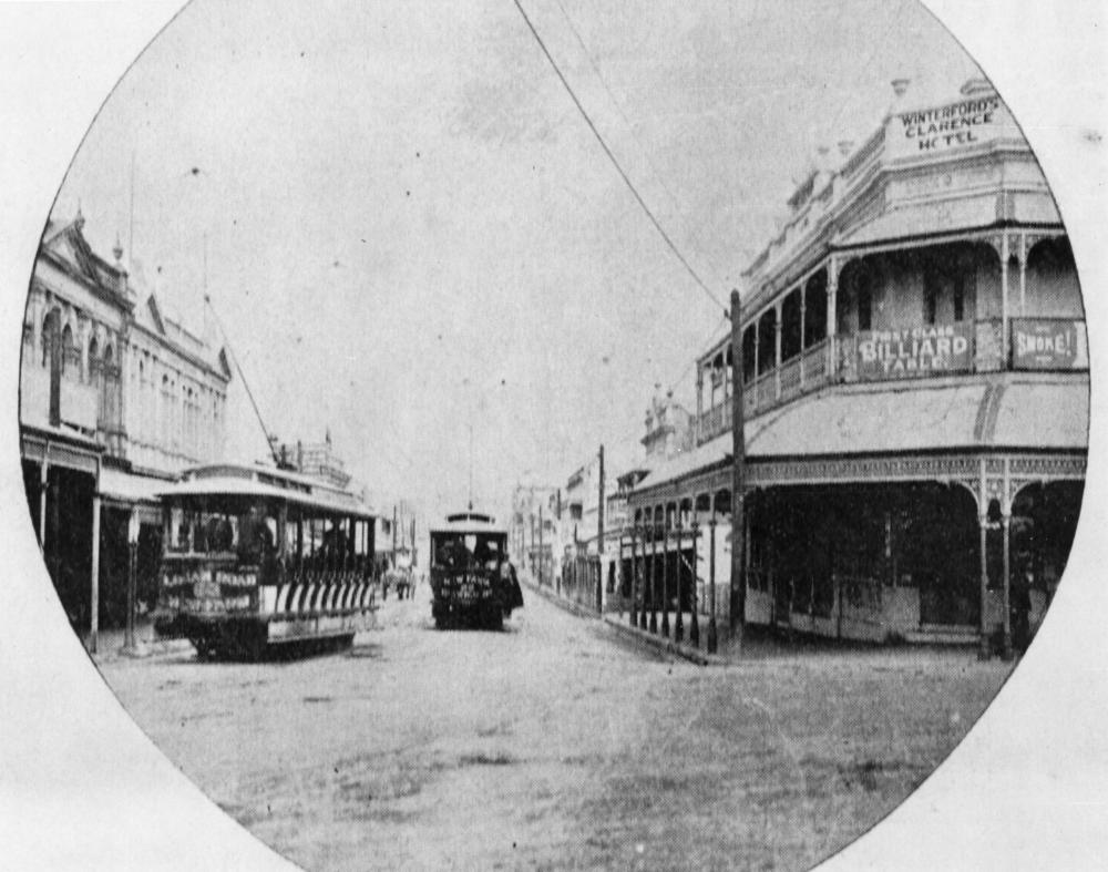 Trams travelling on Stanley Street, Woolloongabba, 1900. Looking east from the corner of Annerley Road, along Stanley Street. The Clarence Hotel is on the right.